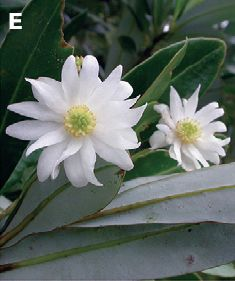 Drimys granadensis, flowers and leaves (Cerro de la Muerte, km 70 Pan-American Hwy, road to El Paraiso del Quetzal, 2700 m).